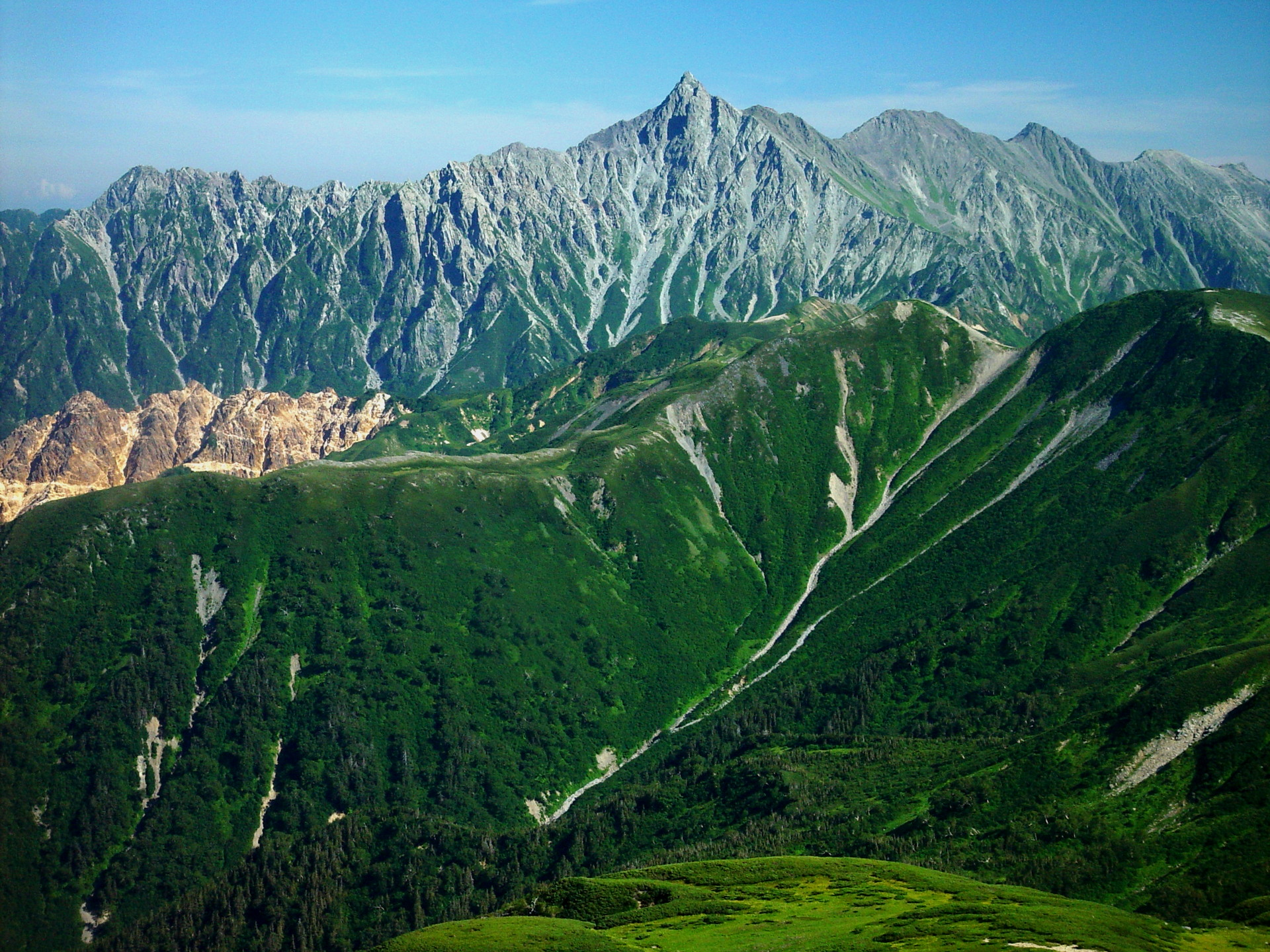 Mount Yari from_Mount_Mitsumatarenge